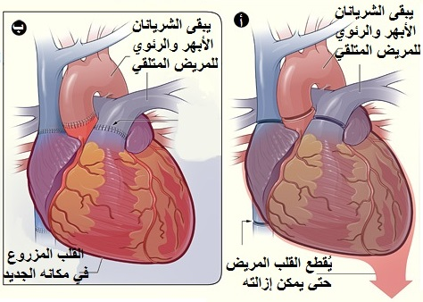 أماكن فصل وخياطة الأوردة والشرايين في عملية زرع القلب.